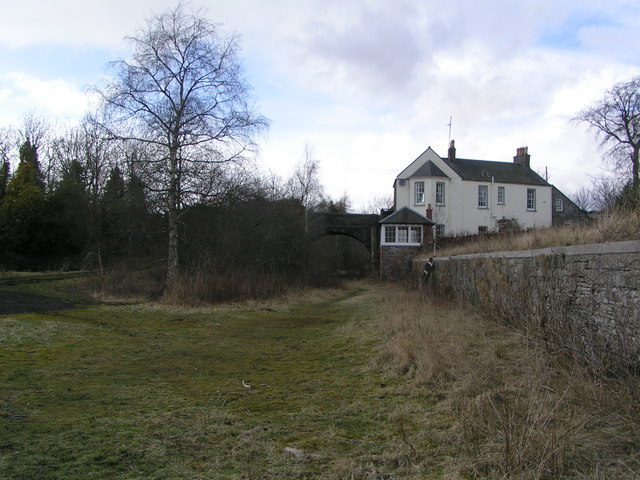 Auldbar Stationmaster's House The house here was originally the stationmaster's house for Auldbar Road Station. The picture was taken from the original trackbed of the old Arbroath and Forfar Railway. There was also a railway yard in this location.